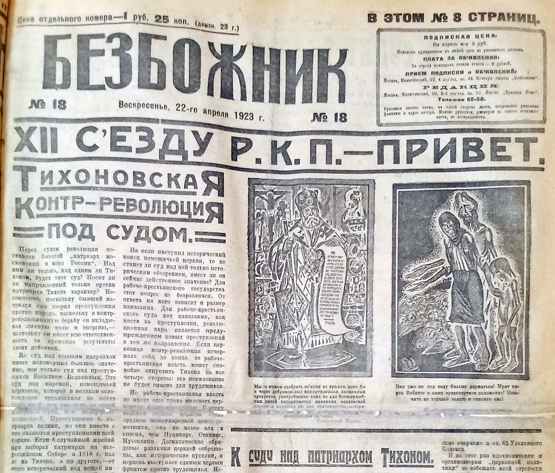 Soviet newspaper Bezbozhnik, April 1923. The trial of Patriarch Tikhon